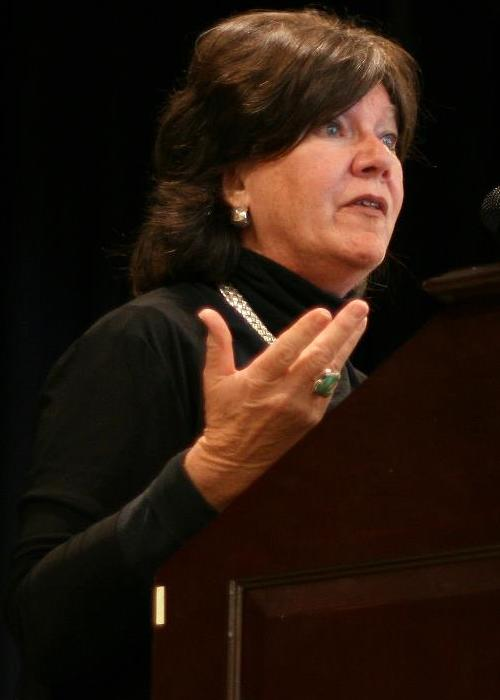 Mary Badham speaks to Birmingham Southern College students in Birmingham, AL on November 8th 2012